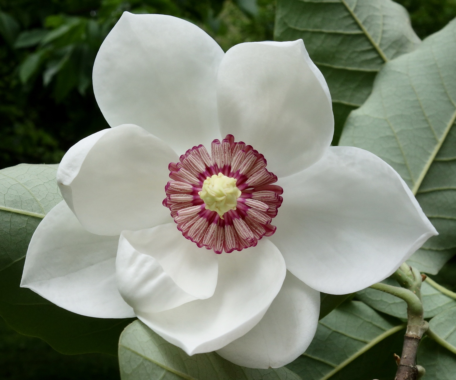 Magnolia sieboldii flower, male phase.​ Arnold Arboretum of Harvard University, accession #404-97*A.